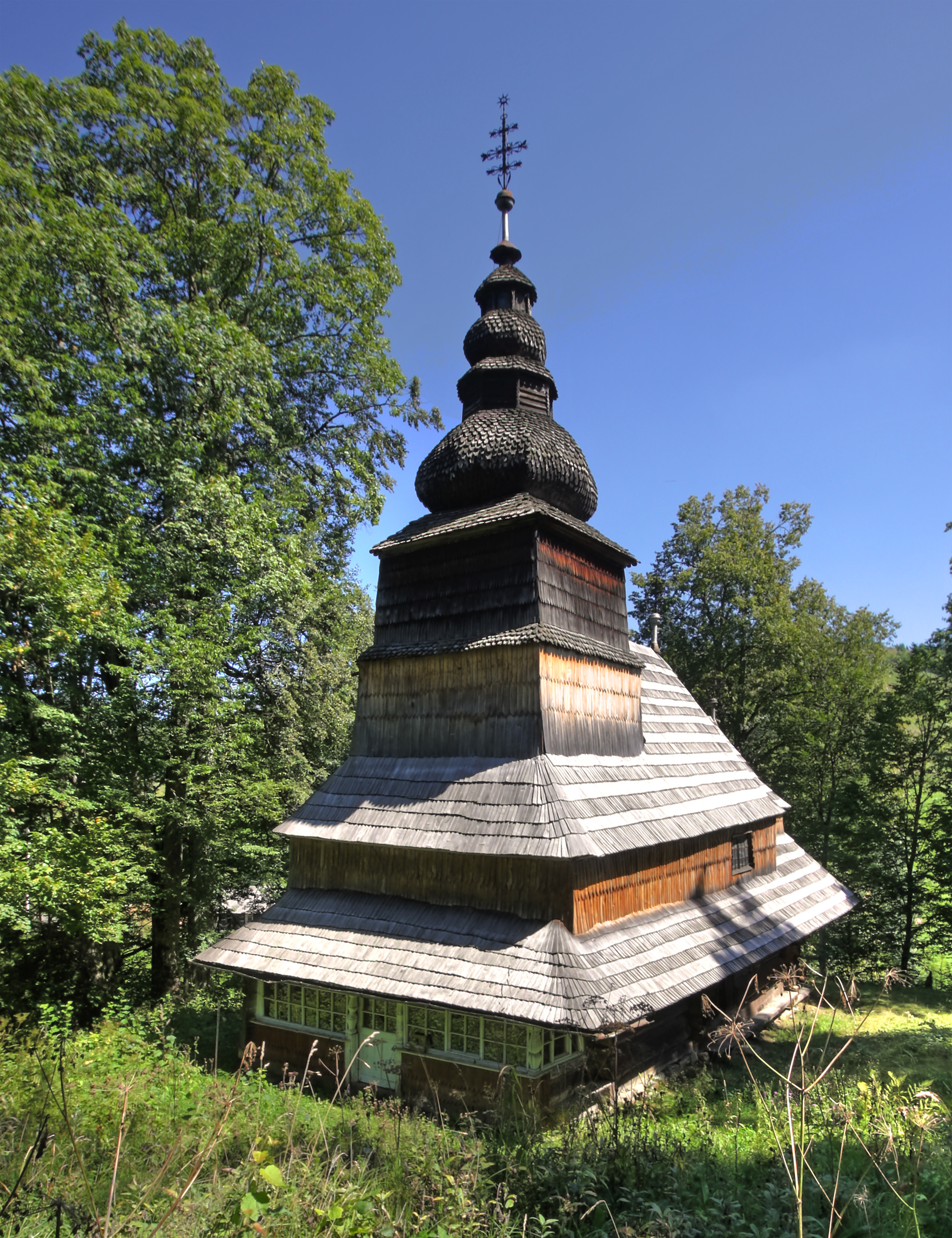 Church Presentation of Mary ("The Entry of the Most Holy Theotokos into the Temple", Roztoka, Mizhhiria Raion, Zakarpattia Oblast, Ukraine. Built in 17th century, rebuild presumably in 1759, belfry 18. century (Mykhailo Syrokhman, Churches of Ukraine. Zakarpattia, S. 457f.)